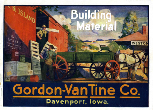 Cover of a kit home materials catalog published by Gordon-Van Tine Company, Davenport, Iowa, in 1922. I believe this image to be in the public domain because it was published in the United States before 1923. Found at [1]